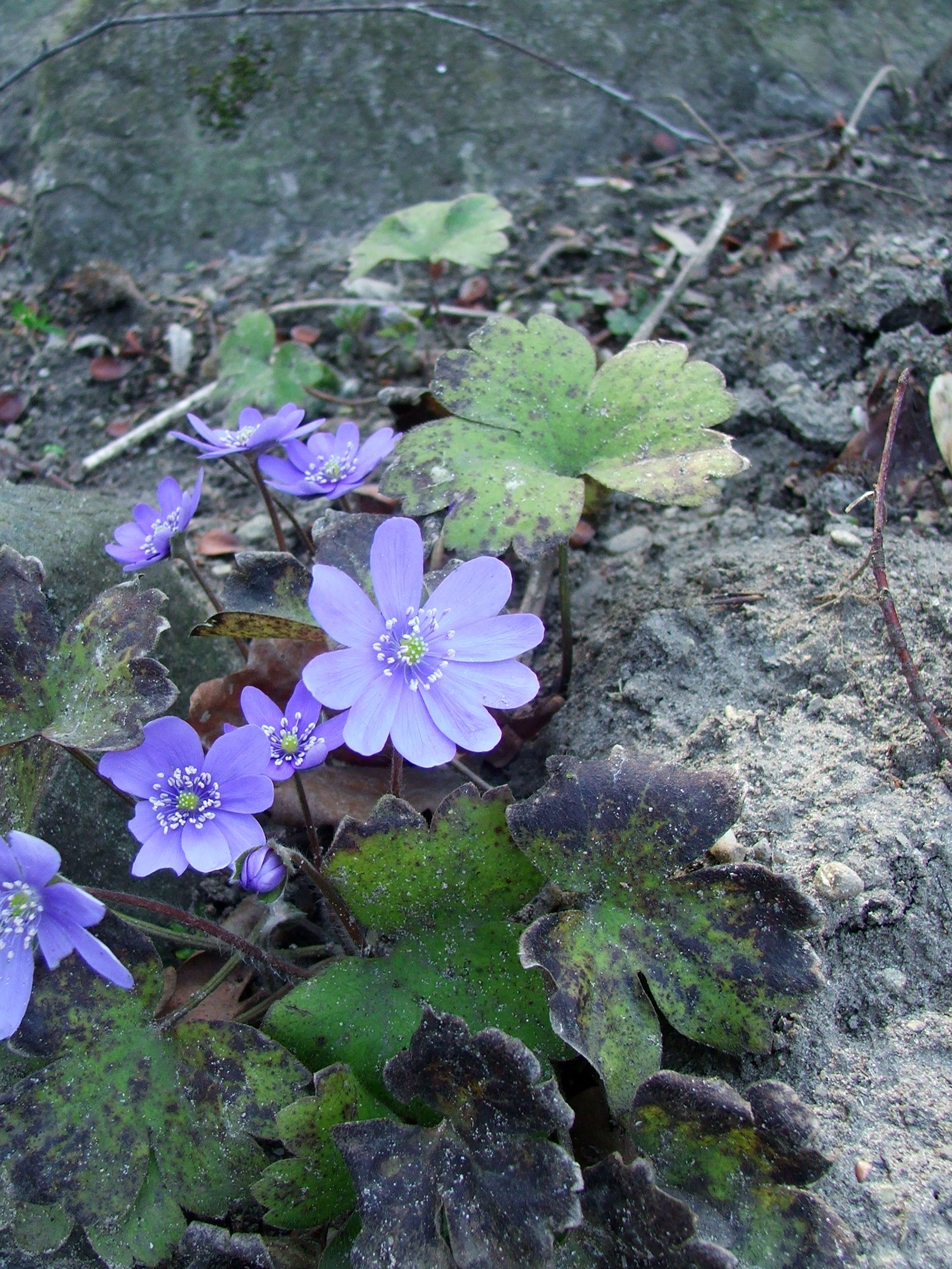 Hepatica transsilvanica in MTA Botanic Garden Vácrátót, Hungary